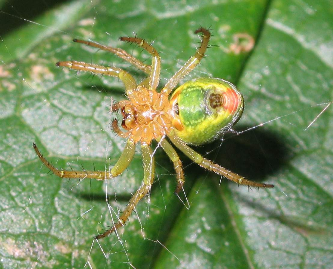 Author: soebe Date: July 27, 2005 Location: Hamburg, Northern Germany